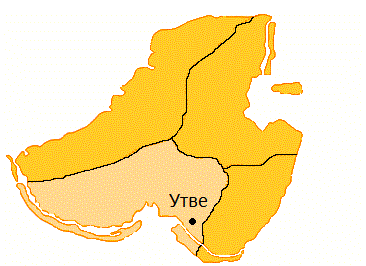 Map of Utwe Minicipality, Kosrae, Micronesia in Macedonian.